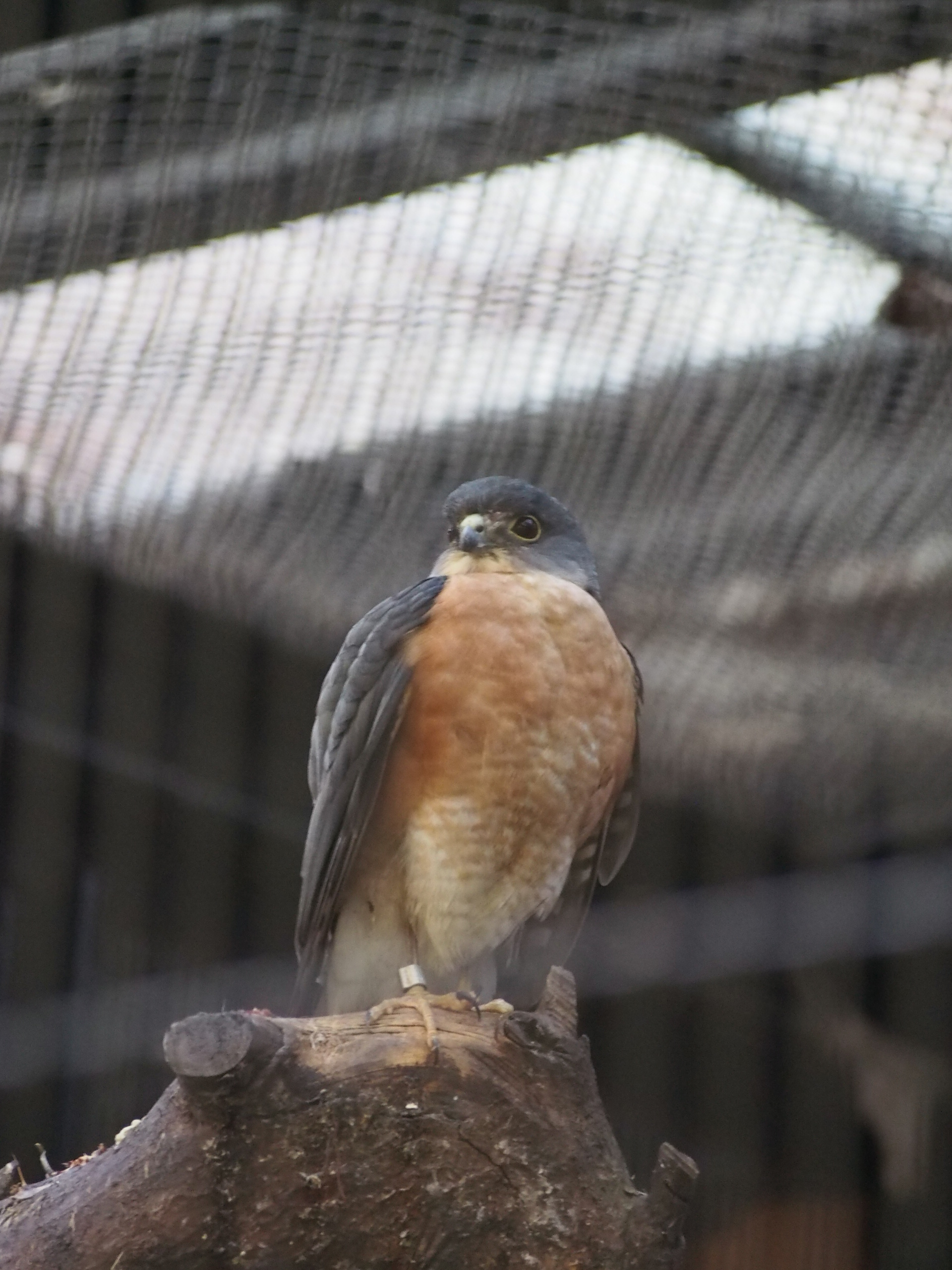 Japanese sparrowhawk (Accipiter gularis) in Inokashira Park Zoo, in Mitaka, Tokyo, Japan.